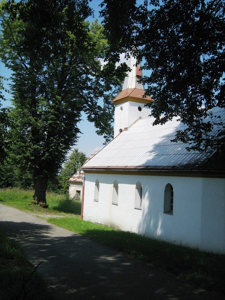 Salisov, Zlaté Hory